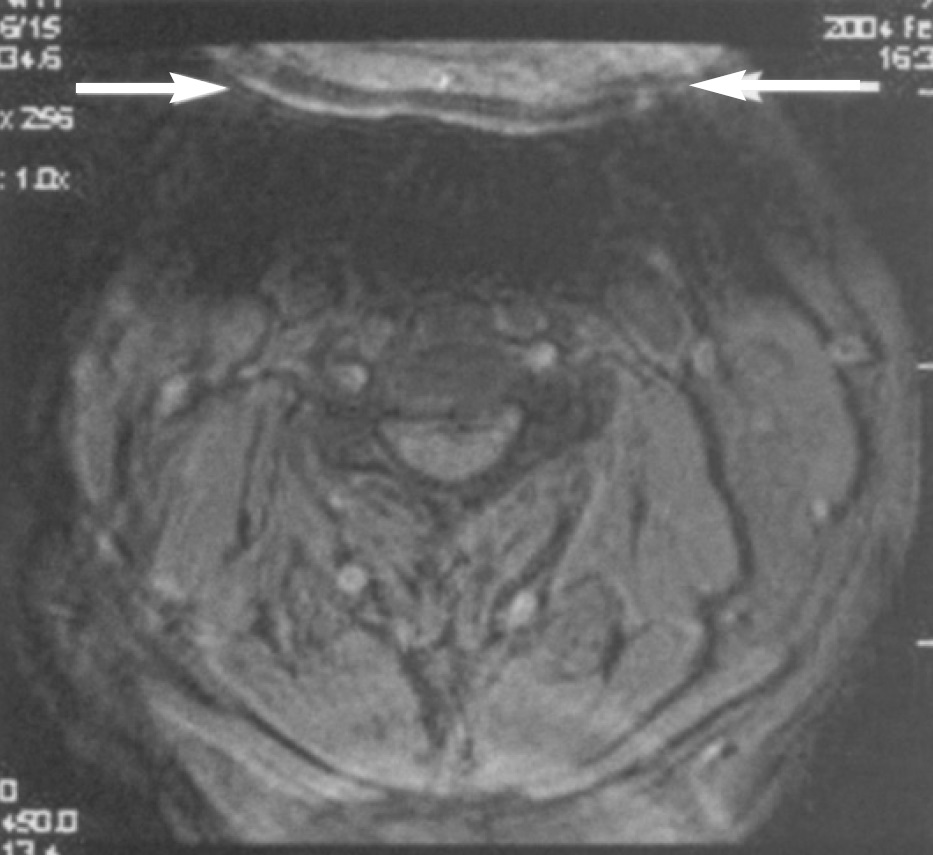 MRI with wrap around artifacts. For context, see: MRI artifact